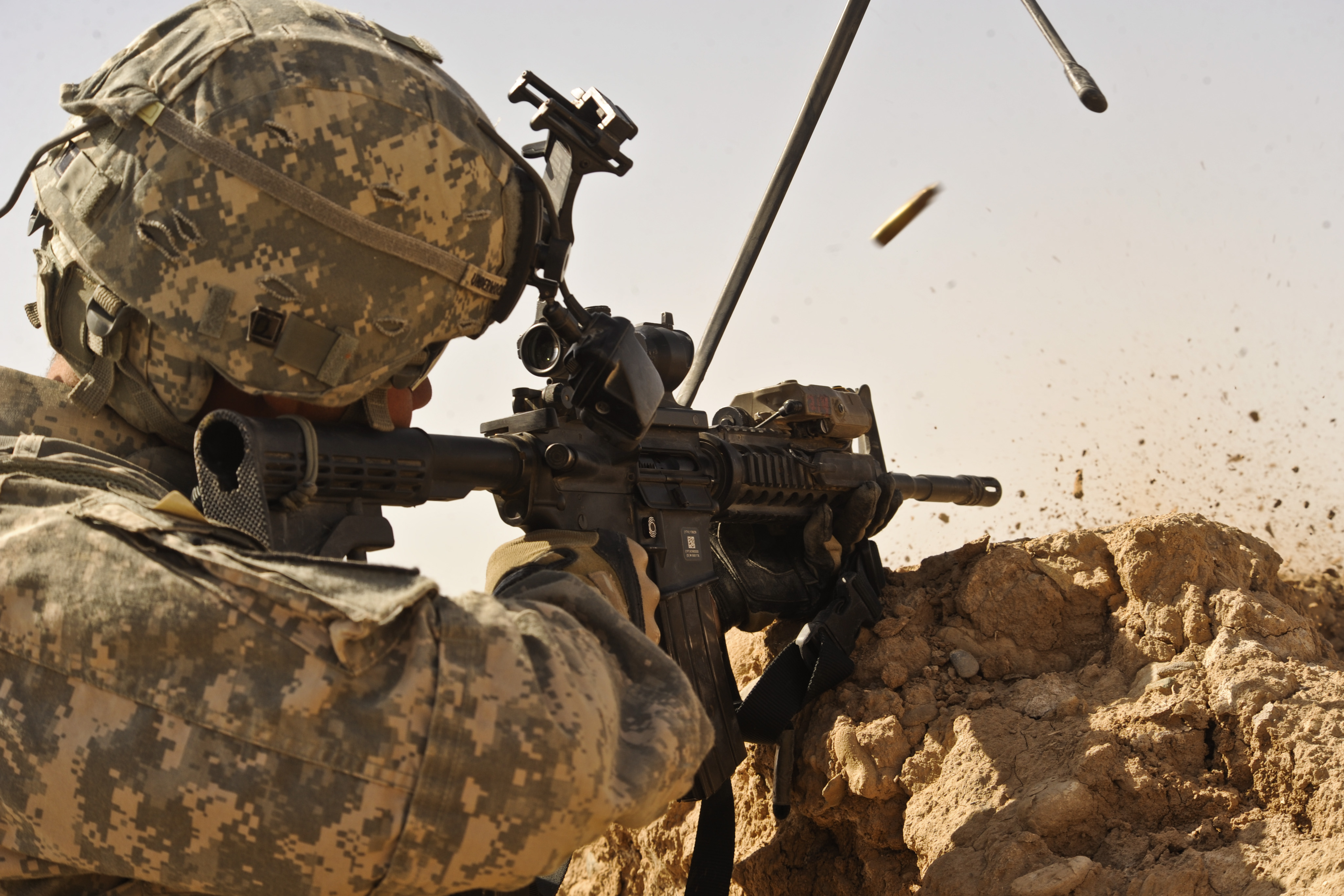 U.S. Army 2nd Lt. Jesse Underwood engages enemy forces during Operation Moshtarak in Badula Qulp, Afghanistan, Feb. 19, 2010. The International Security Assistance Force operation is an offensive mission being conducted in areas of Afghanistan prevalent in drug-trafficking and Taliban insurgency. Underwood is from Alpha Company, 1st Battalion, 17th Infantry Regiment.